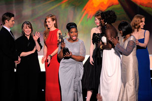 academy award winning actress Octavia Spencer alongside Bryce Dallas Howard, Viola Davis, Jessica Chastain and Emma Stone at the 84th academy award ceremony